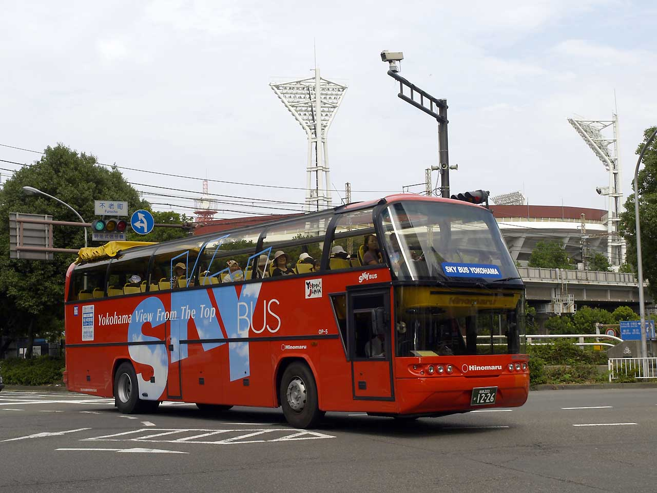 Fleet of Hinomaru Jidosha Kogyo, open-top bus for city tour "Sky Bus", operated at Yokohama City from April 28 to September 27, 2009. Model: Neoplan N117/2 Spaceliner License plate: KNS200 KA1226 ex. TKN200 KA2318 returned to Tokyo: TKN200 KA2570 Place: Neighbour of Kan-nai station, Naka Ward, Yokohama Japan